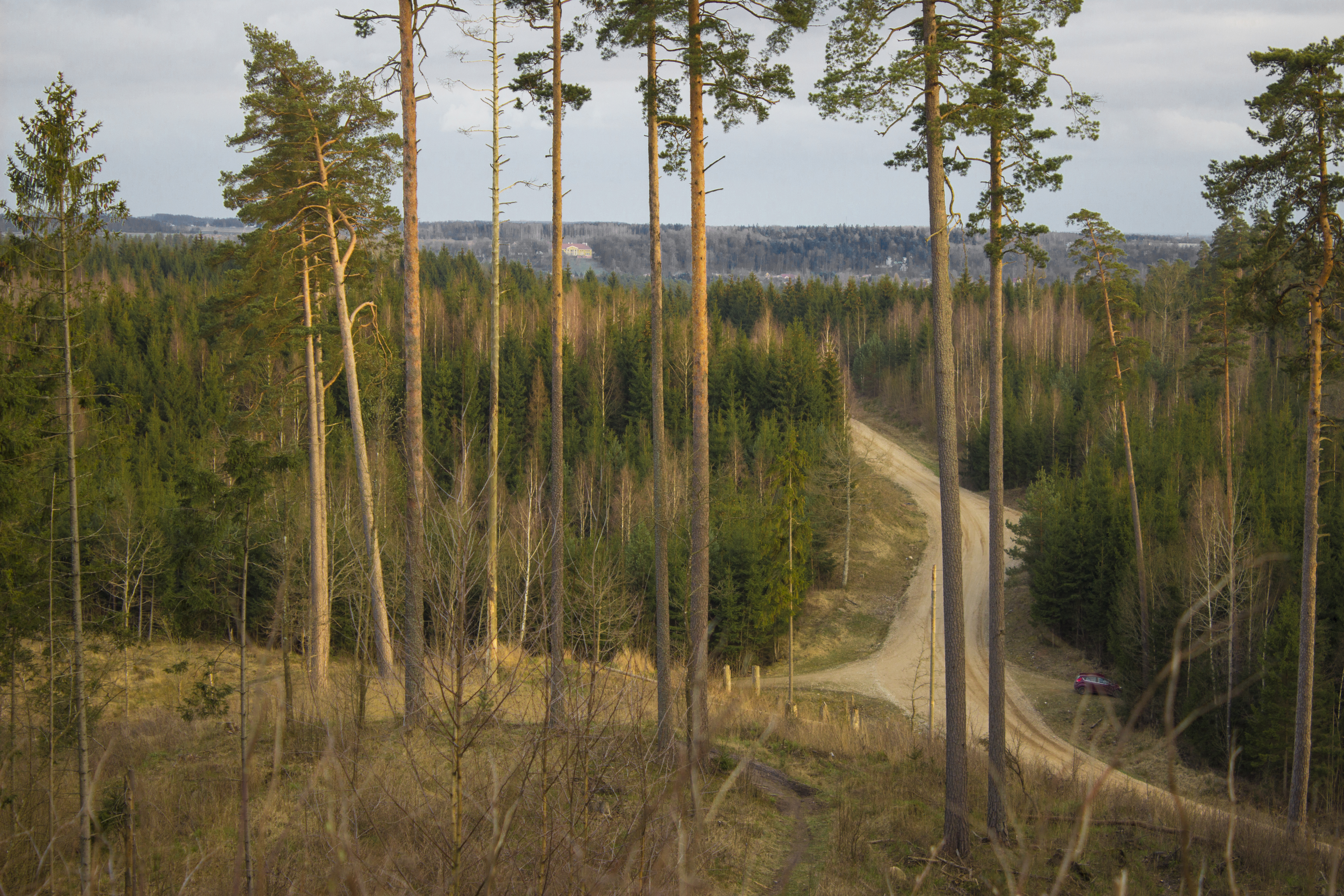 the sight to Durbe manor from Āža hill